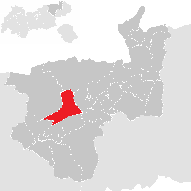 District Kufstein